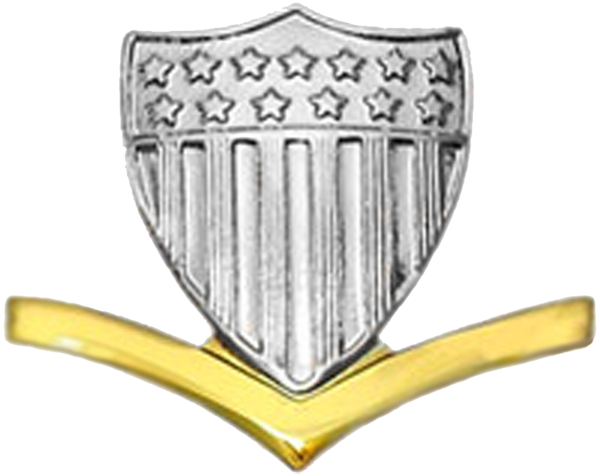 U. S. Coast Guard 3rd Class Petty Officer Collar Insignia